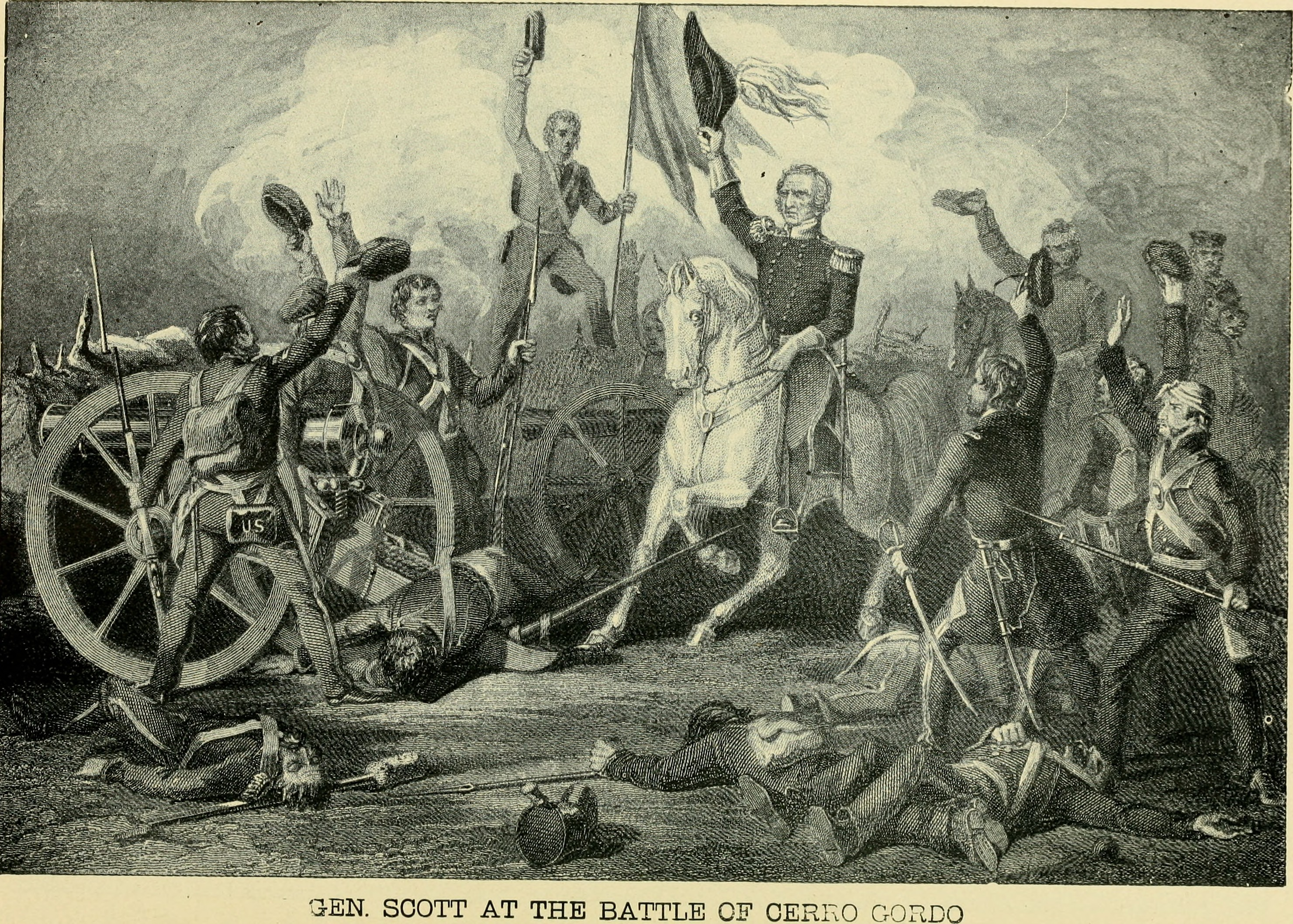 Winfield Scott Title: Winfield Scott on horseback.jpg Year: 1901 (1900s) Authors: Northrop, Henry Davenport, 1836-1909 Subjects: Publisher: Philadelphia, National pub co. Text Appearing Before Image: ' Text Appearing After Image: ADMINISTRATION OF JAMES K. POLK. 617 Scott^ avoiding a direct attack, turned theenemys I ^t, i^eized the heights commandingtheir position, and drove them from theirworks with a loss of three thousand prisonersand forty-three pieces of artillery. SantaAnna mounted a mule, taken from his car-riage, and fled, leaving the carriage and hisprivate papers in the hands of the Americans.Besides their prisoners, the Mexicans lostover one thousand men in killed and wounded. the second city of Mexico, containing eightythousand inhabitants, was occupied. Gen-eral Scott established his headquarters atPuebla, and awaited reinforcements. Theterms of the volunteers would expire inJune, and they refused to re-enlist, as theywere afraid to encounter the yellow feventhe scourge of the Mexican climate, theseason for which was close at hand. Theywere returned to the United States and Gen